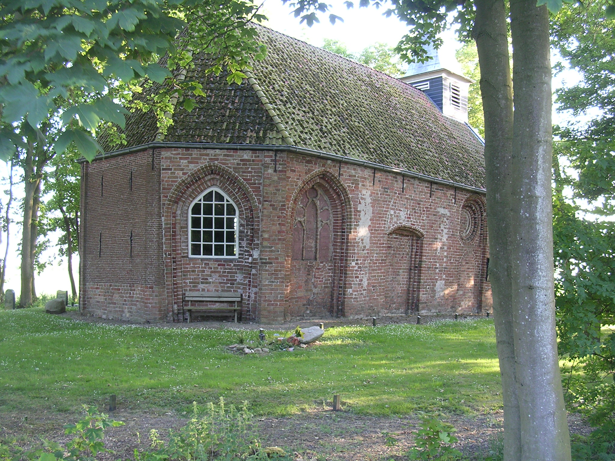 Chapel in the village of Sibrandahûs